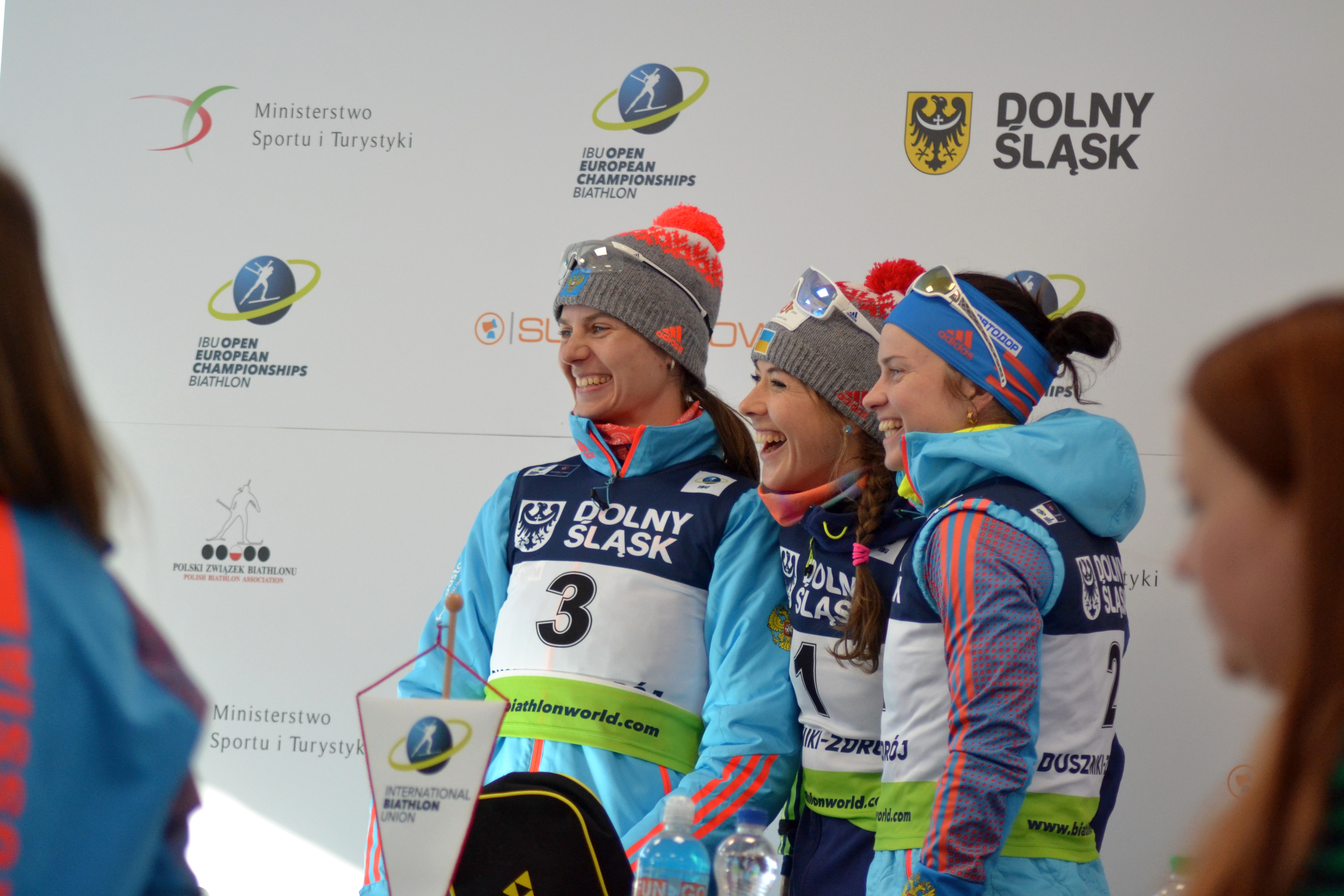 Open European Championships Biathlon 2017, Women's Pursuit race.